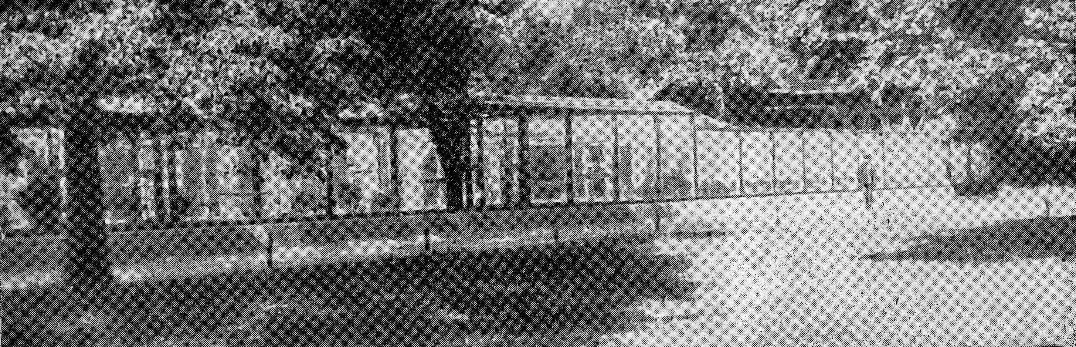 Sofia Zoo: The Pheasants house, built in 1894